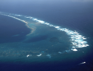 Aerial view of the Southeast Part of Kingman Reef, Pacific Ocean, looking north